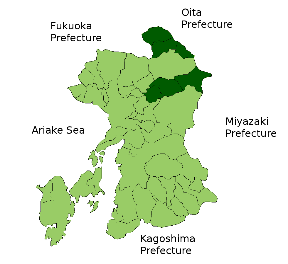 The location of Aso_District in Kumamoto Prefectuur, Japan